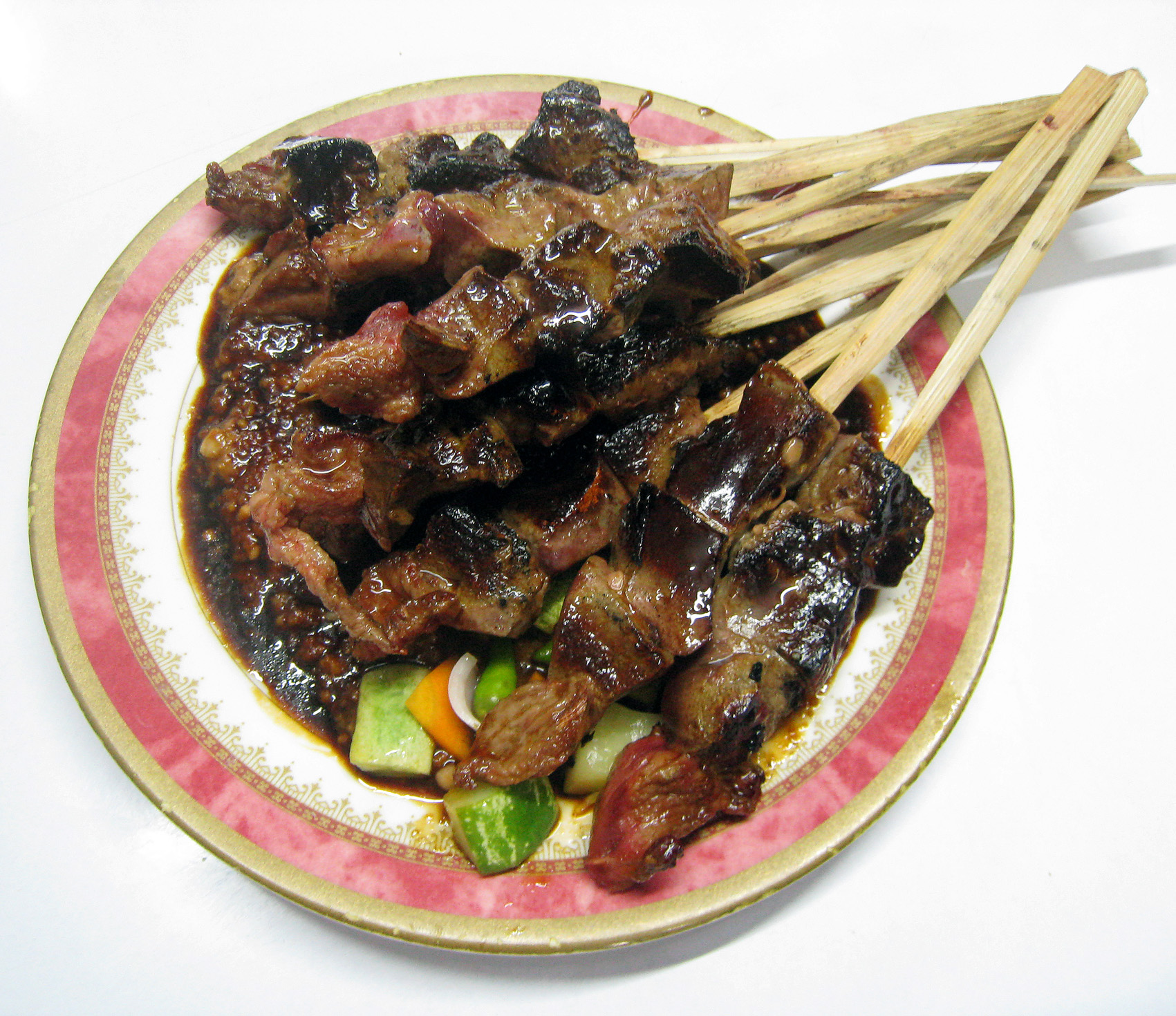 The goat liver satay in a satay restaurant at Jalan Sabang, Central Jakarta. The goat liver is served with sweet soy sauce and pickles.